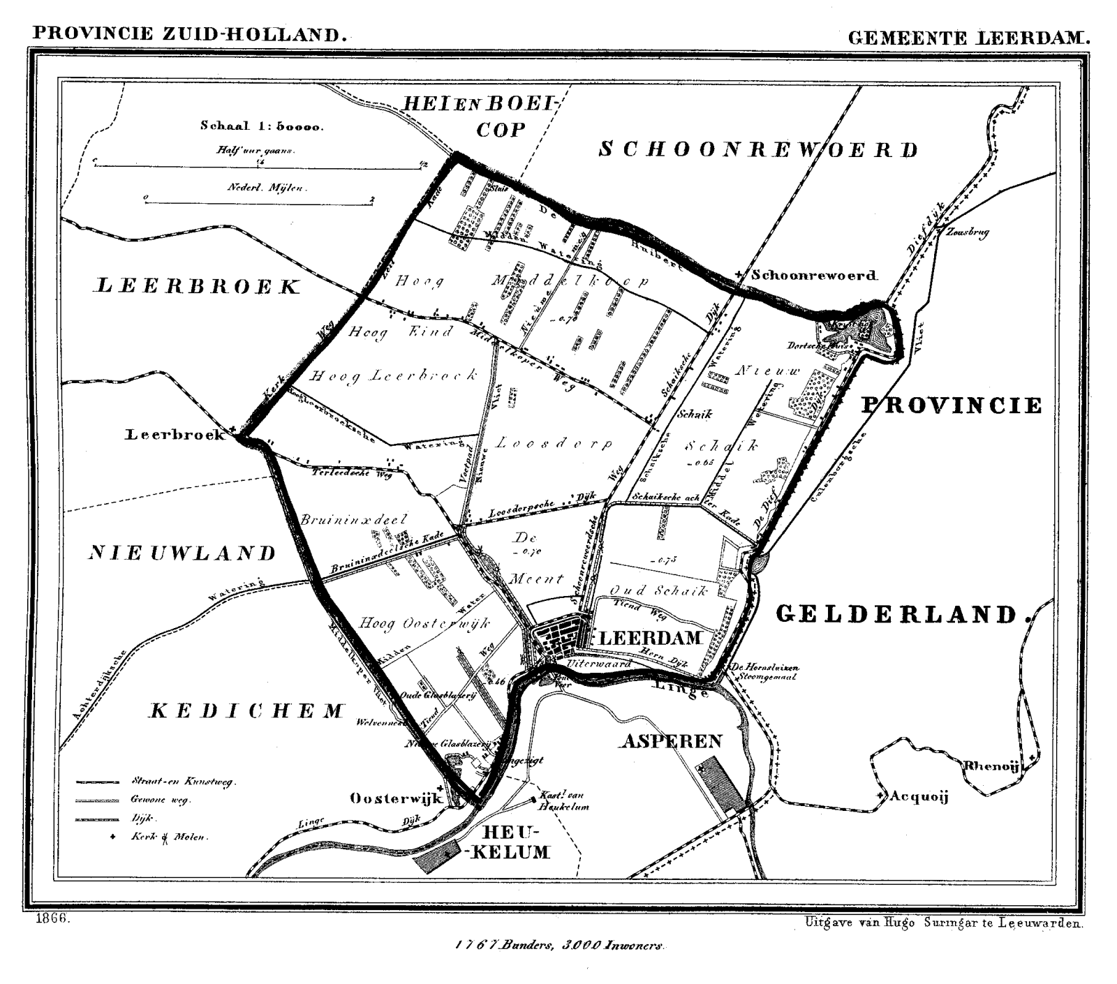 Historic map of Leerdam, the Netherlands